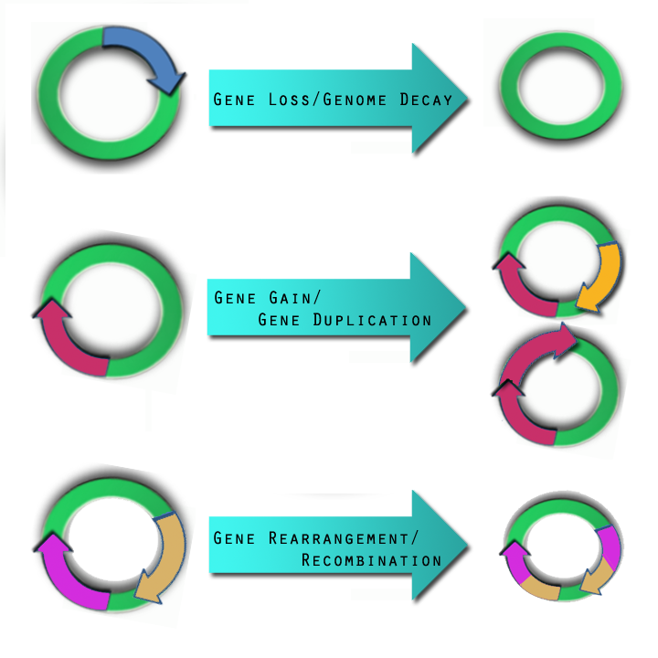 This is a figure which illustrates the genomic events which account for genome varability in pathogens. In particular, this diagram is illustrating a plasmid.